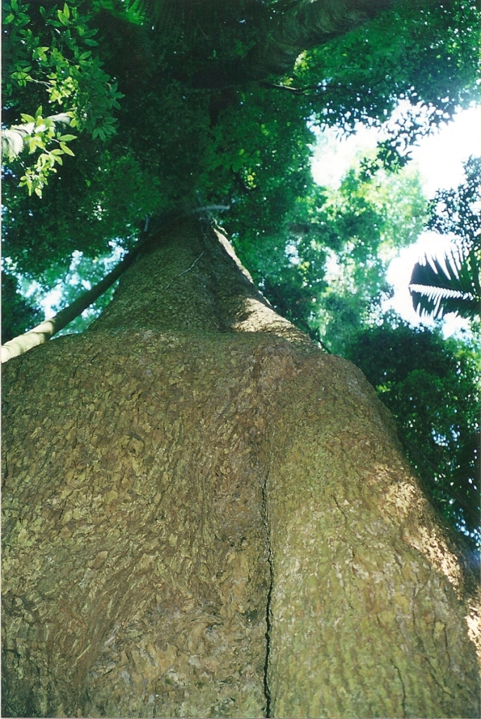 Dysoxylum_fraserianum_-_giant_tree - Border Ranges National Park